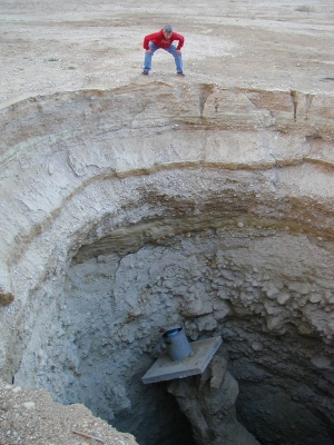 Dead sea ecological disaster - Sinkholes